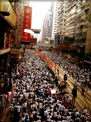 Article 23 demonstration Hong Kong March for Democracy